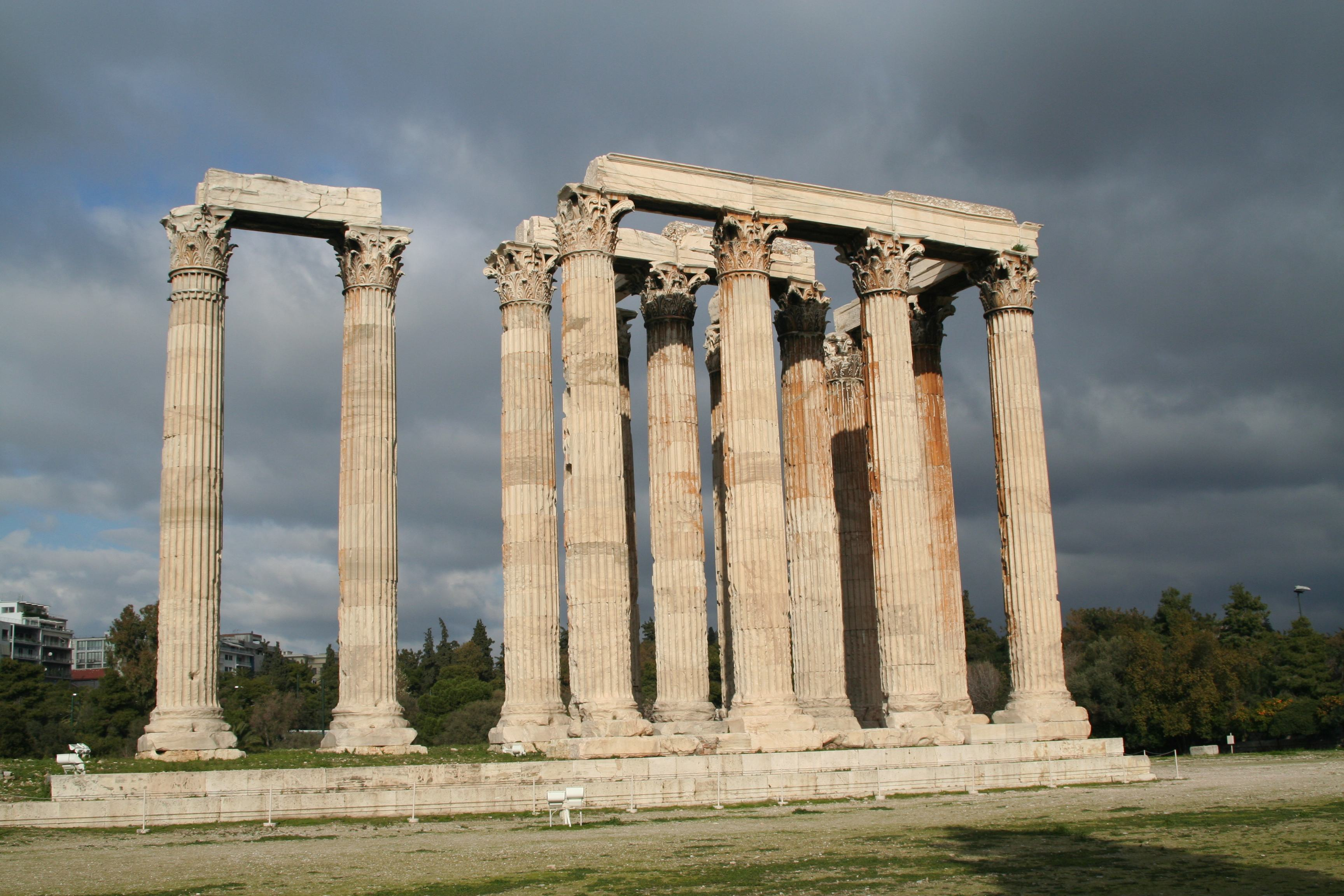 The remaining structure of The Temple of Olympian Zeus at Athens. It had been cloudy all day, and with the clouds gathering to the East, the sun came out from the West to Illuminate the stone.